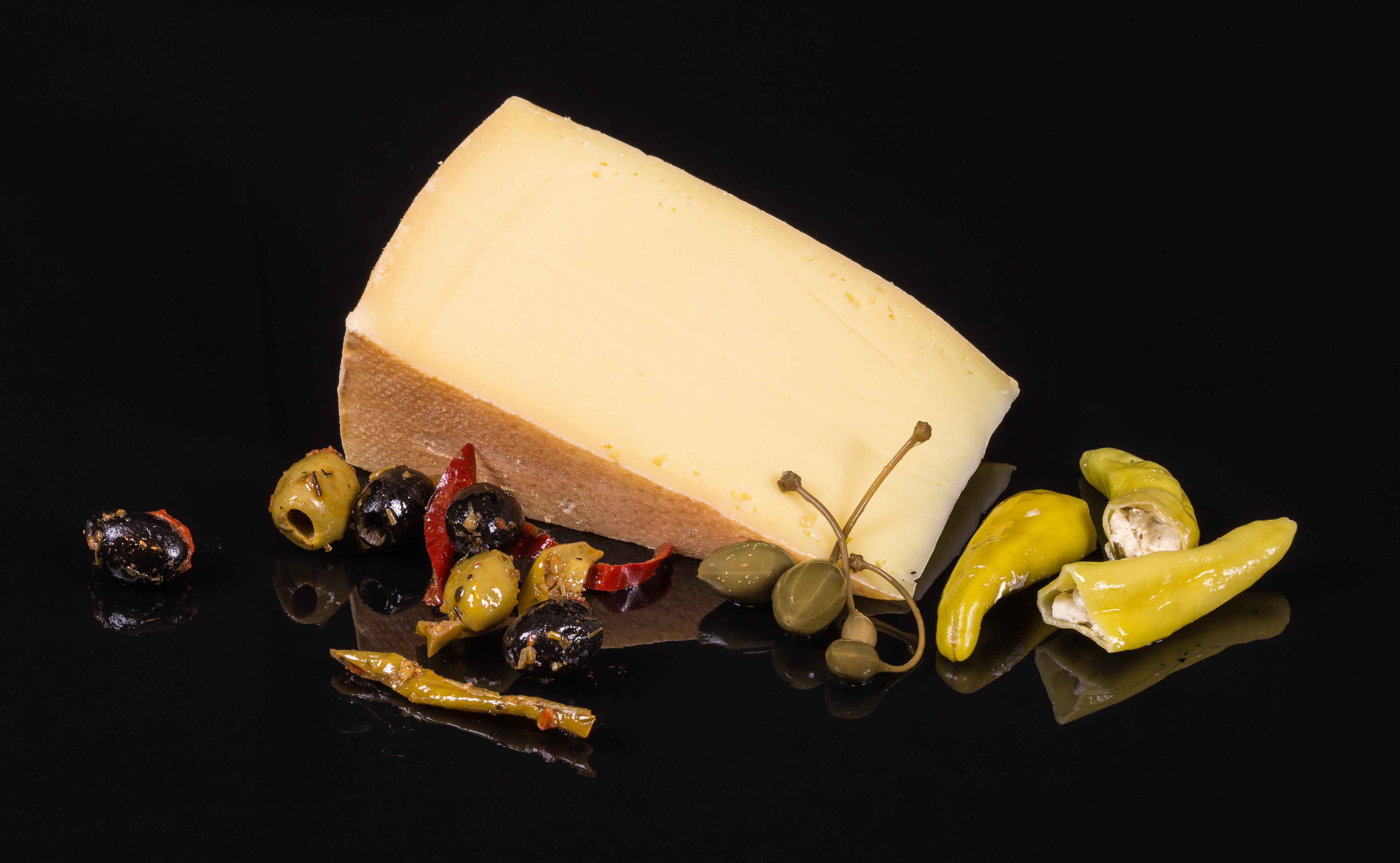 Bergkäse, Mountain cheese, unknown origin, Label Milfina The making of this work was supported by Wikimedia Austria. For other files made with the support of Wikimedia Austria, please see the category Supported by Wikimedia Österreich.